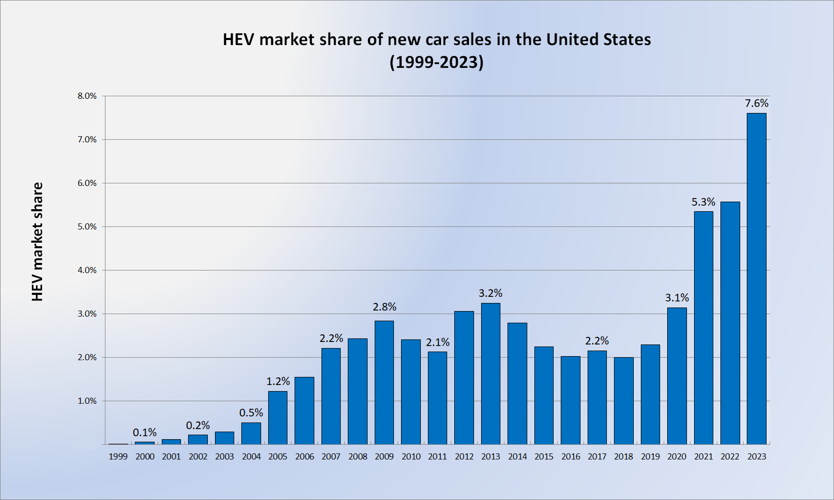 Annual hybrid electric vehicle (HEV) market share of new car sales in the United States between 1999 and 2019. Data series taken from: Alternative Fuels and Advanced Vehicles Data Center (US DoE), available here and here data for: 2011 from : 2012 from: 2013 from: 2014 from: 2015 from: Transportation Energy Data Book, Ed. 38.1 (2020), Oak Ridge National Laboratory 2016-2019